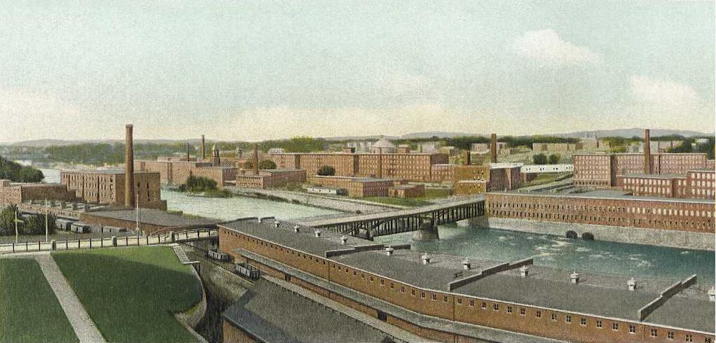 Amoskeag Manufacturing Company, looking up the Merrimack River, Manchester, NH; from a 1911 postcard by Alphonso H. Sanborn.